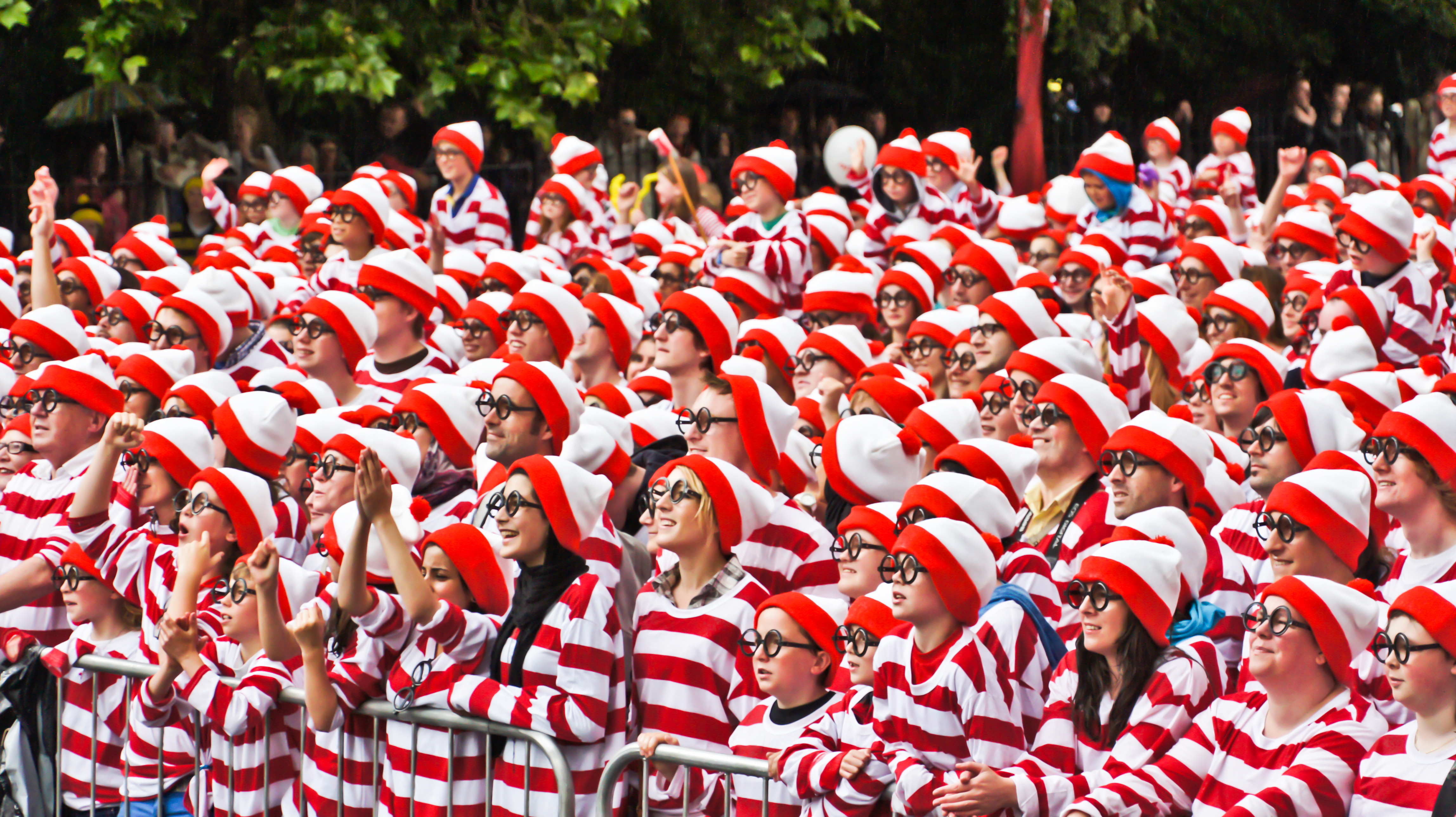 Where’s Wally World Record Following the successful Space Hopper World Record which I photographed last year, today the SPWC (Street Performance world Championship) took on an even more ambitious world record attempt in the Where's Wally World Records. Tens of thousands of festival goers dressed as Wally in an attempt to break the record and become the largest gathering of Wallys ever! A super high resolution photograph was taken from a crane capturing all the Wallys and creating the first ever real-life Where's Wally picture which will be posted online as well as being included in the Irish Times on Monday. However, if you cannot wait have a look at my photographs and see if you can spot yourself.